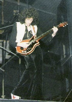 Queen live in Hannover, Germany 1979